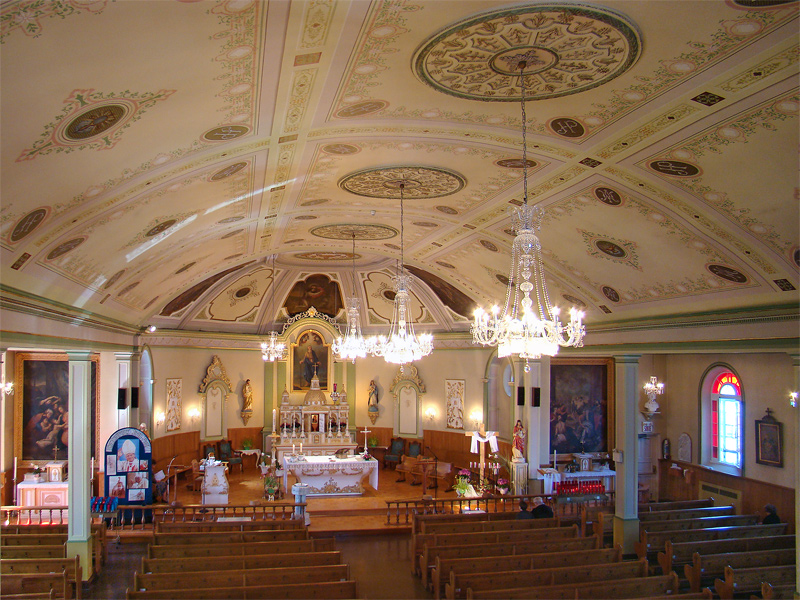 Church of Saint-Joachim, Châteauguay, Montérégie, Quebec, Canada. Interior decoration by sculptors Philippe Liébert and Amable Gauthier, and the painter Joseph Légaré. Designated Historic Monument by the Province of Quebec in 1957, and National Historic Site of Canada in 1999.